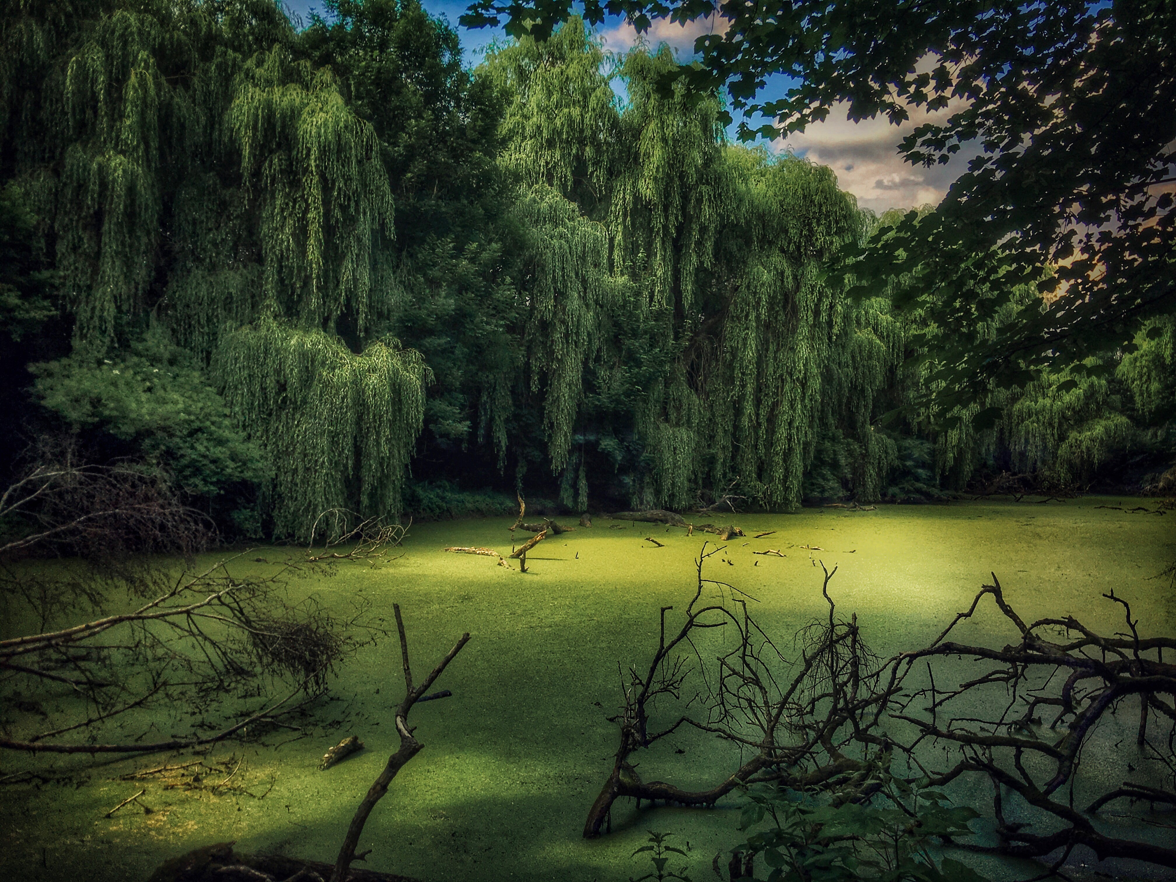 natural pond in the sanctuary Heiligenhaus Angerbachtal